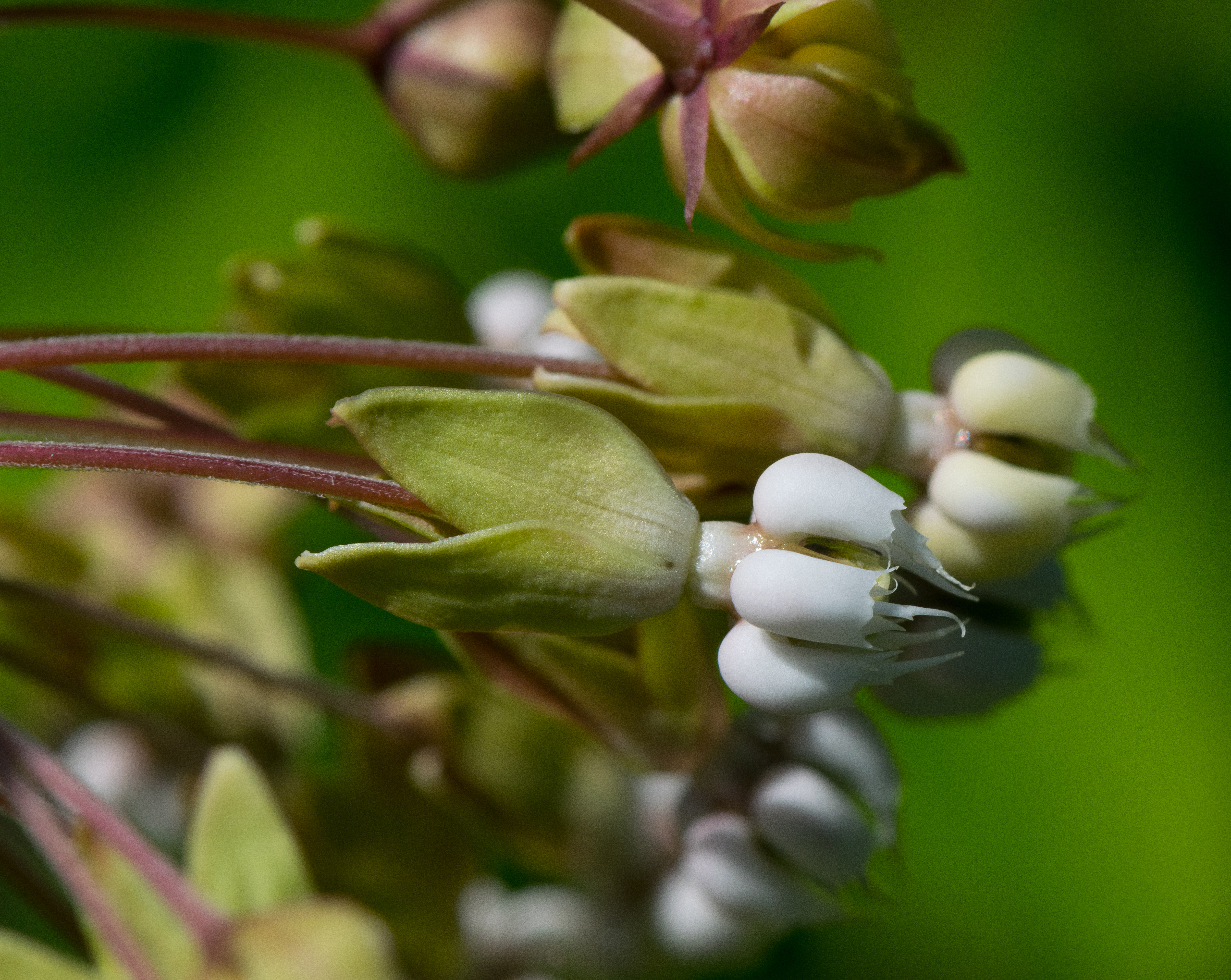 Clasping MIlkweed (Asclepias amplexicaulis) - Five-Mile Bluff Prairie Wisconsin State Natural Area #76 Pepin County